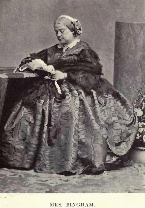 Marie-Charlotte Chartier de Lotbinière (1805-1865). Daughter of Michel-Eustache-Gaspard-Alain Chartier de Lotbinière (1748-1822) and of Mary Charlotte Munro (1776-1834). Wife of William Bingham (1800-1852).(Note: The filename is wrong.)